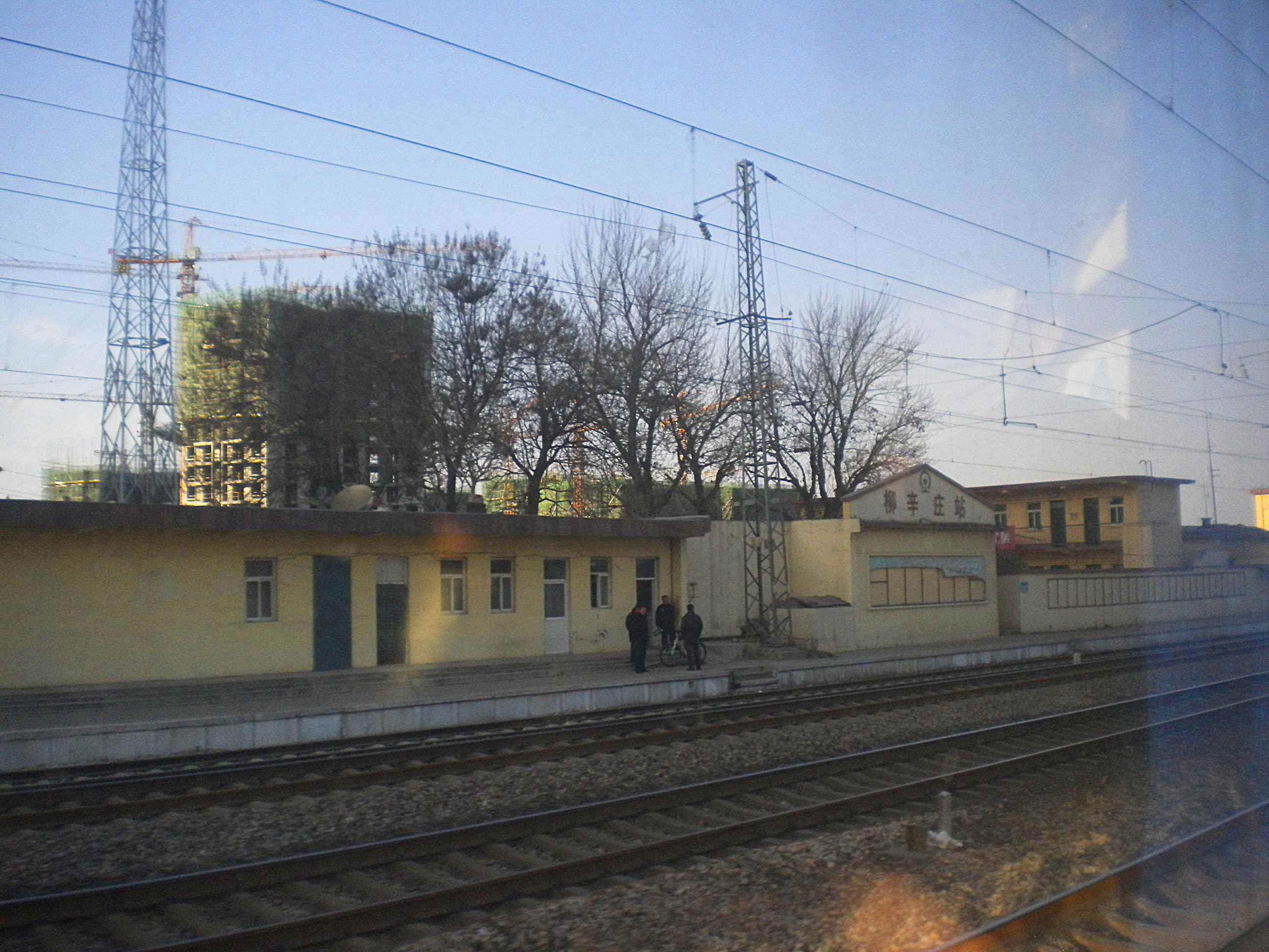 Taken from T61 Beijingxi-Kunming train. Next station: Shijiazhuang.